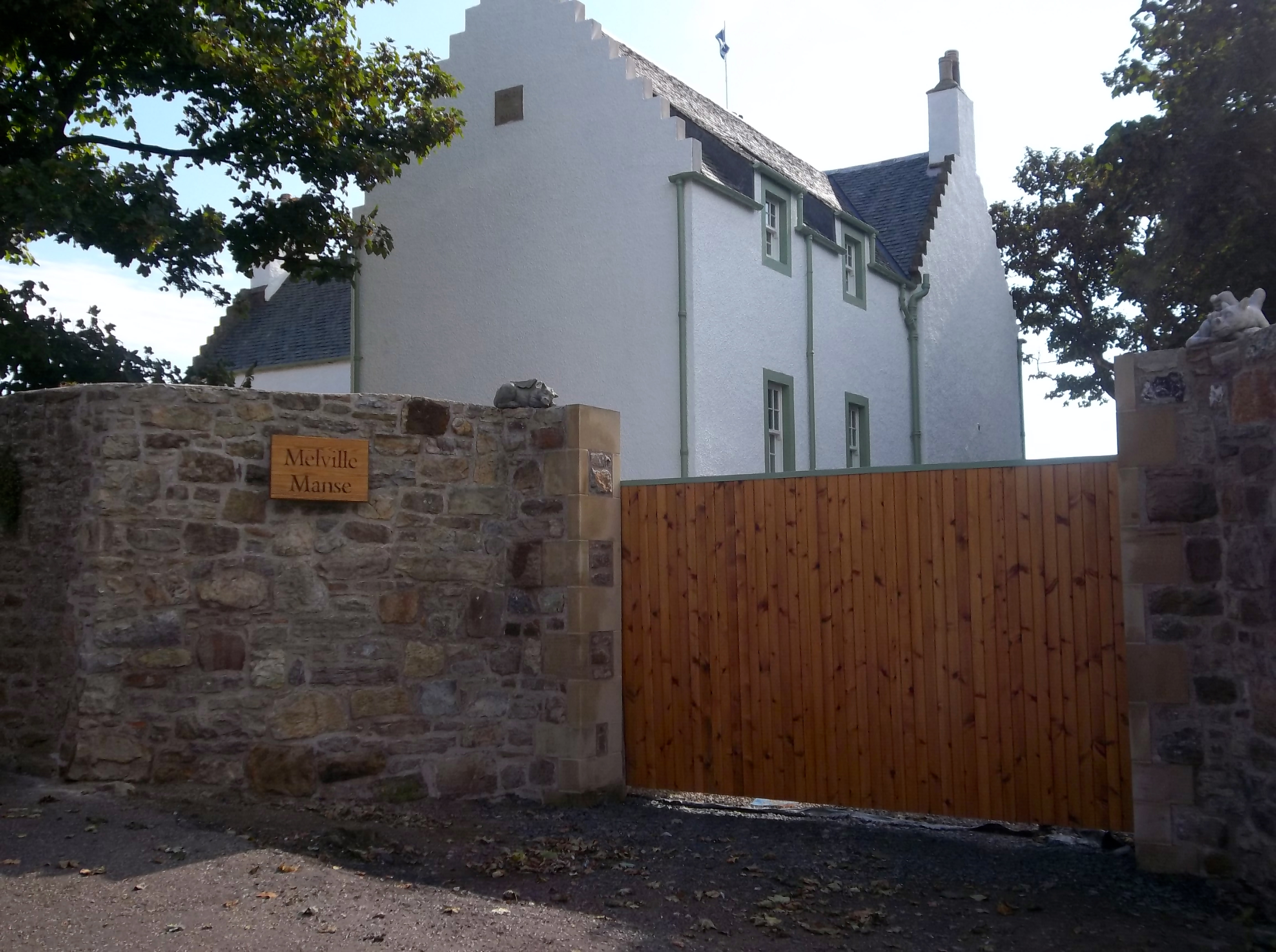 The Manse as seen from Backdykes.